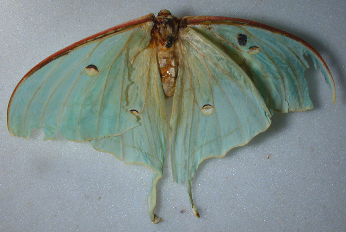 Actias artemis Bremer et Grey type from ZIN collection